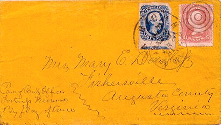 Civil War Prisoner of War cover bearing postage for both US and Confederate mail delivery via Flag of Truce, 1863